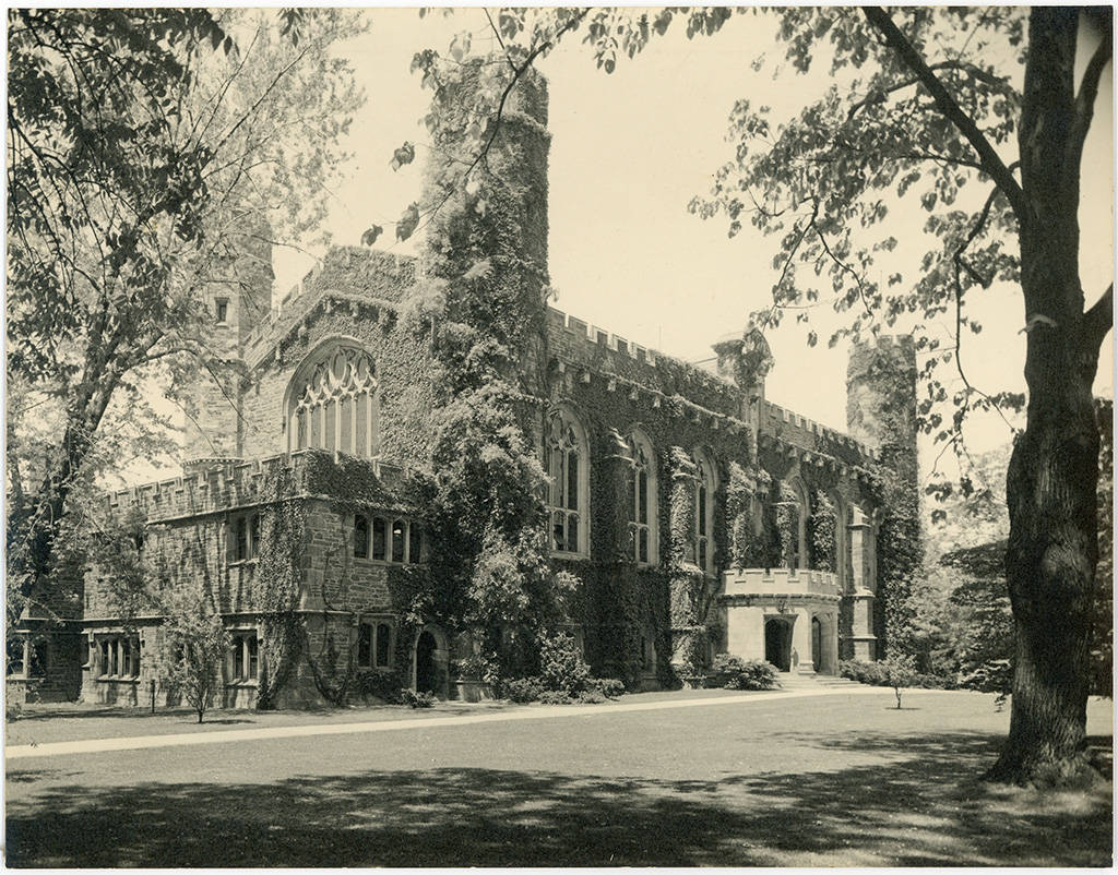 Exterior view of the Great Hall of the M. Carey Thomas Library, designed in 1901 by Walter Cope of the architectural firm Cope and Stewardson. Most of the building, covered in ivy, is visible. The photograph was taken from the pathway in front of Pembroke West Hall. Several trees surround Thomas